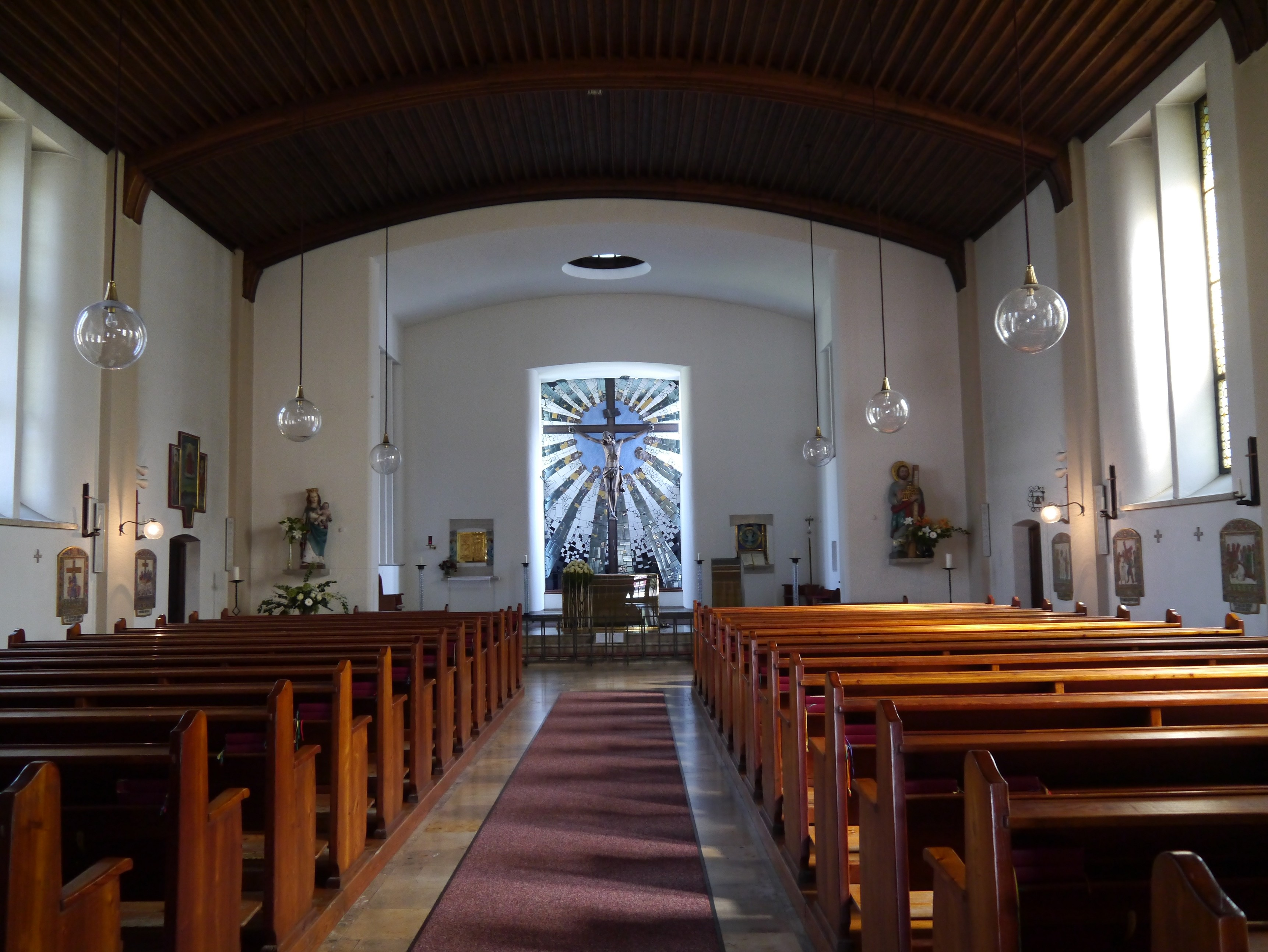 Nave of the Hundertwasser Church St. Barbara, Bärnbach, Styria